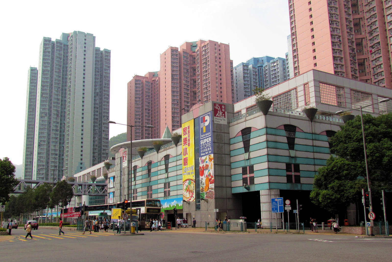 Appearance of Sheung Tak Plaza, Hong Kong